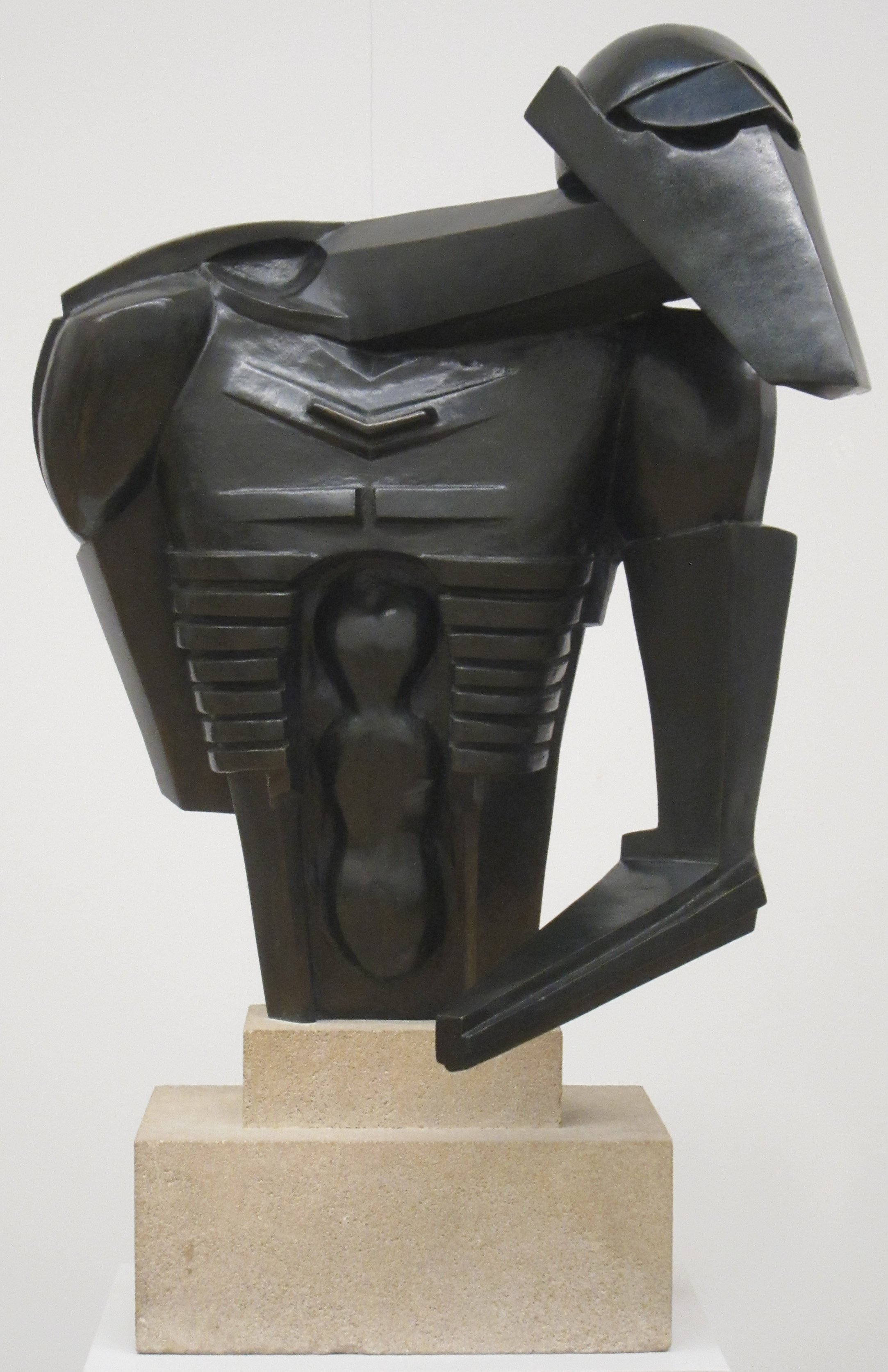 Torso in Metal from “The Rock Drill”, bronze sculpture by Jacob Epstein, 1913-14, Tate Britain